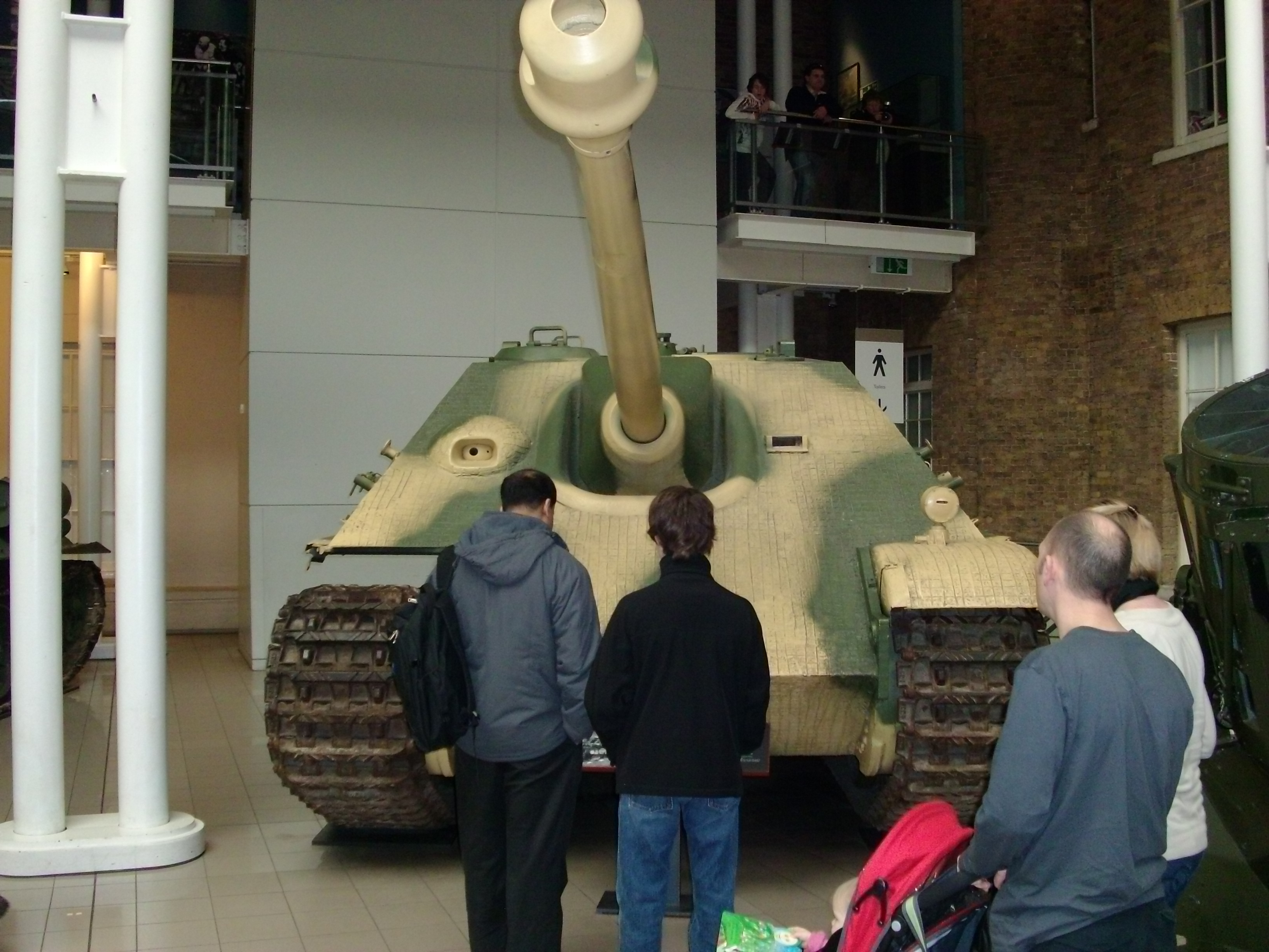 Front view of the Jagdpanther in display at the Imperial War Museum in London